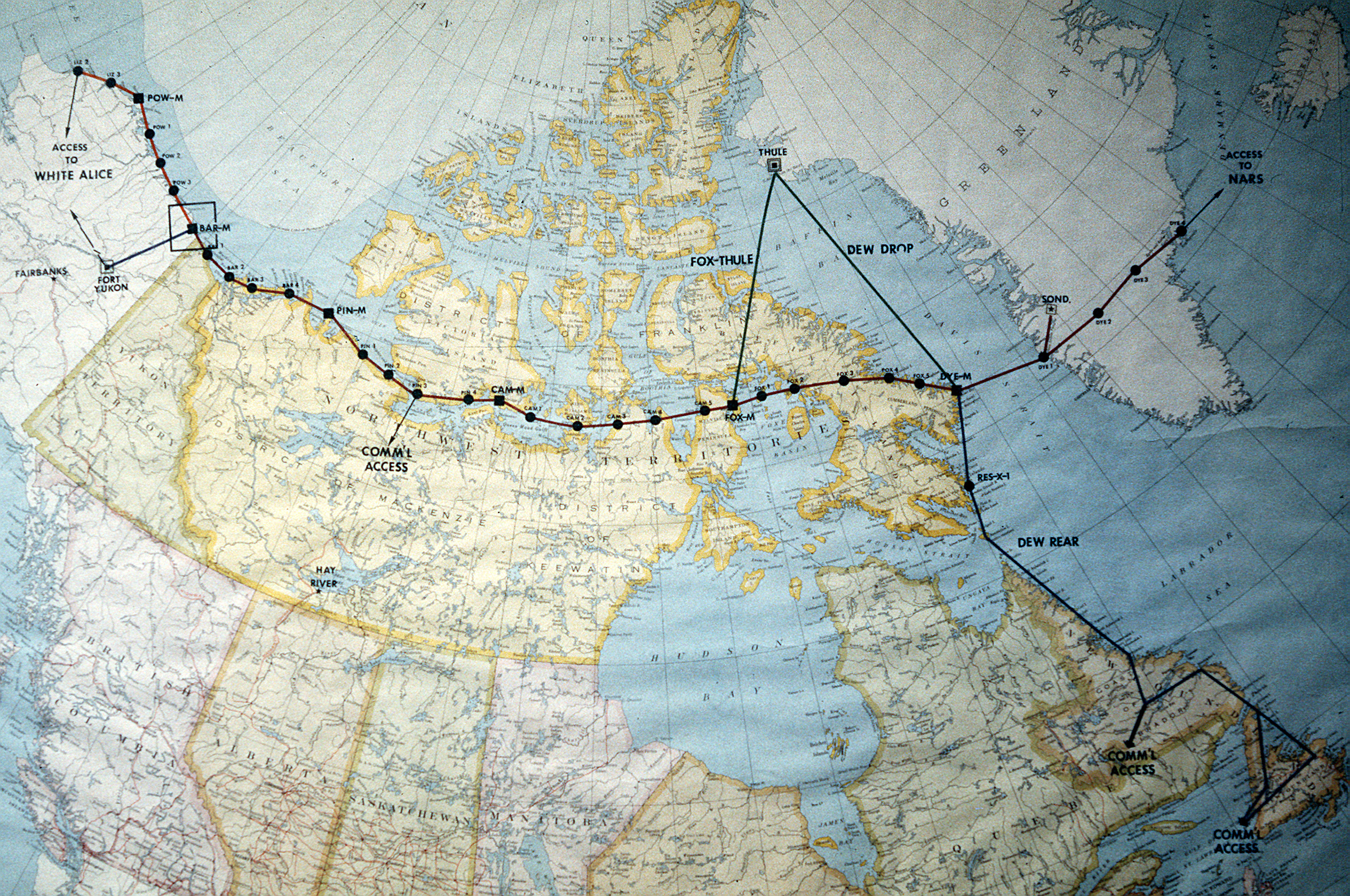 A map of North America near the Arctic Circle showing 30 radar sites spread out along the Distant Early Warning (DEW) Line. Running from Alaska, across Northern Canada to Greenland, the line is approximately 3,600 miles long.